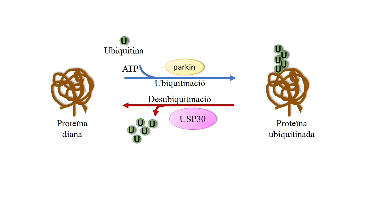 Funció USP30